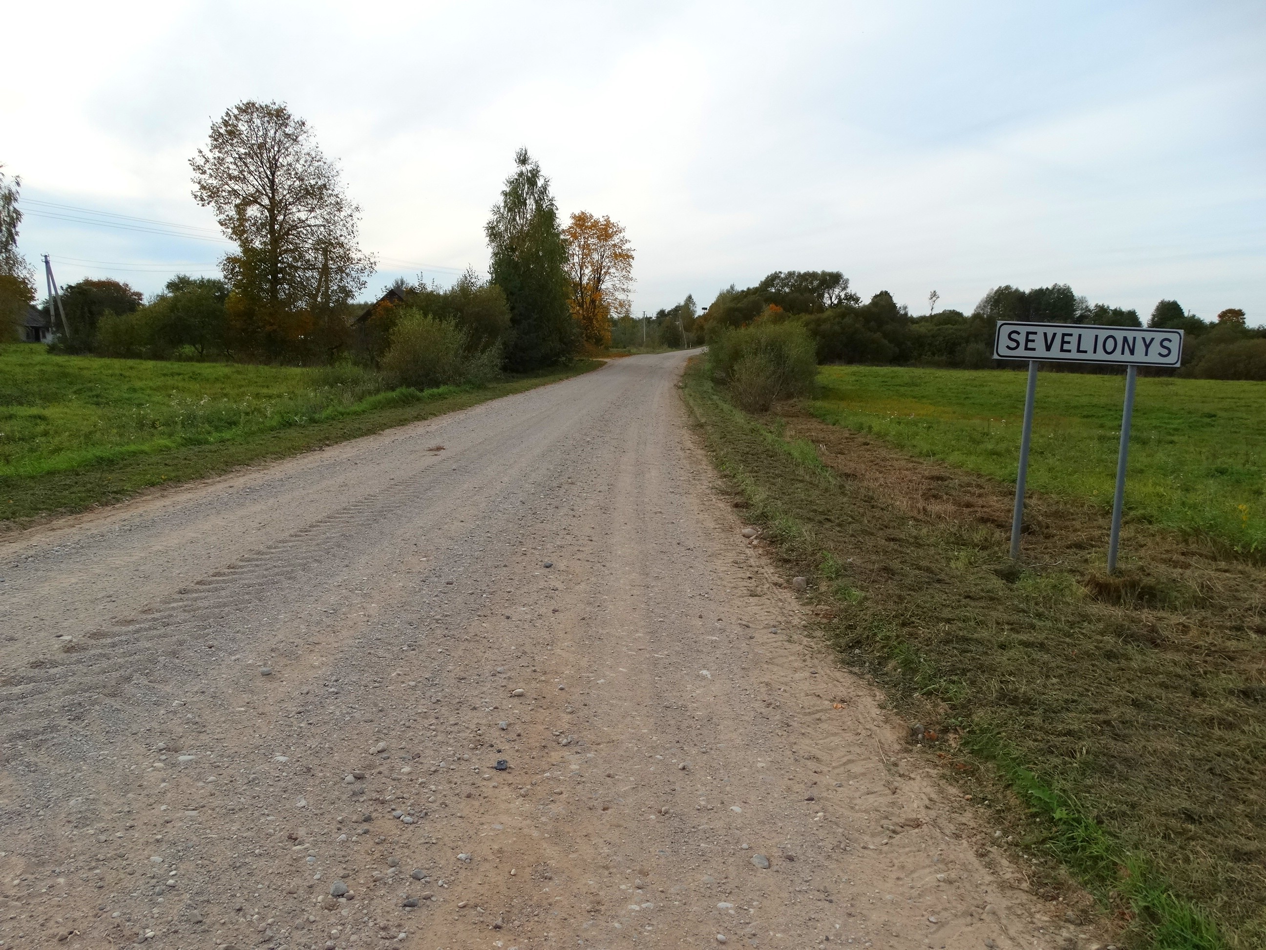 Sevelionys, Kaišiadorys district, Lithuania